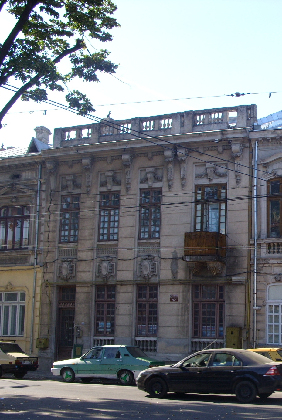 Toff House - Brăila